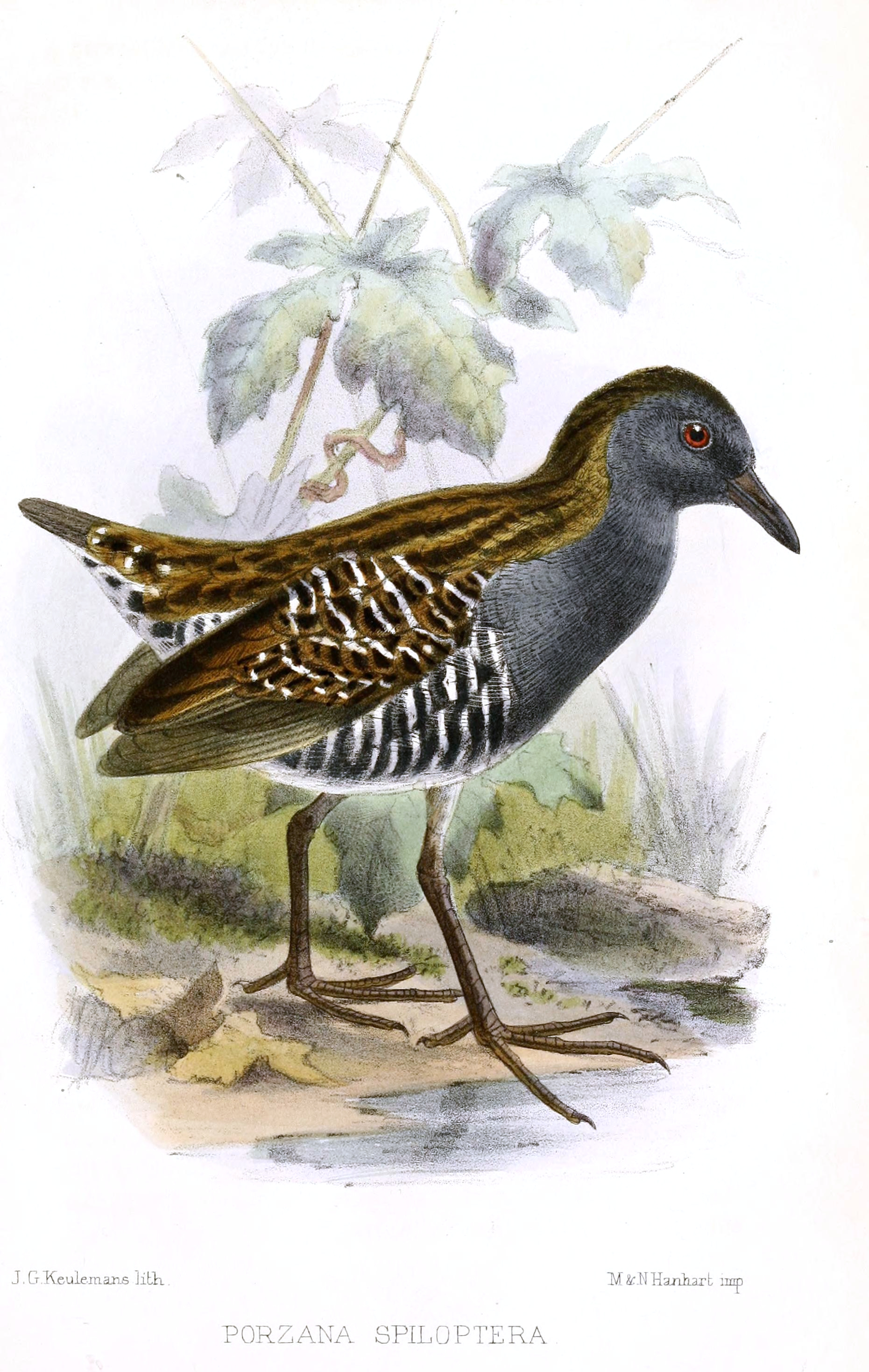 « Porzana spiloptera » = Porzana spiloptera (Dot-winged Crake)